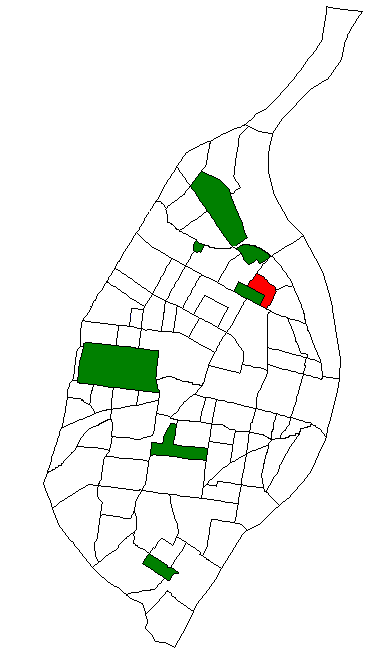 Map of St. Louis Neighborhood #67 (Fairground Neighborhood)